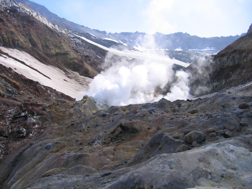 Mutnovsy volcano (crater)